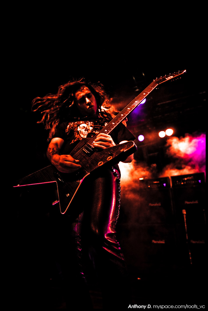 Taken at a Firewind's gig in Paris in november 2008.